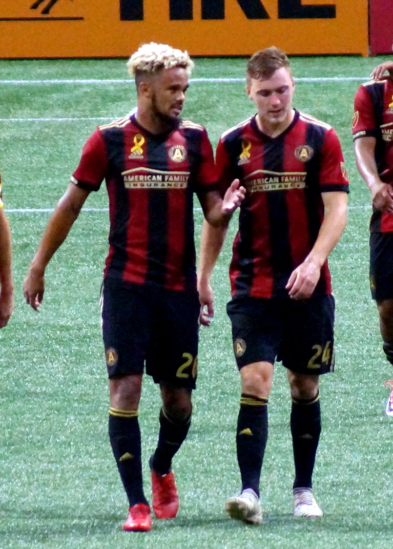 2017-09-24, Anton Walkes and Julian Gressel